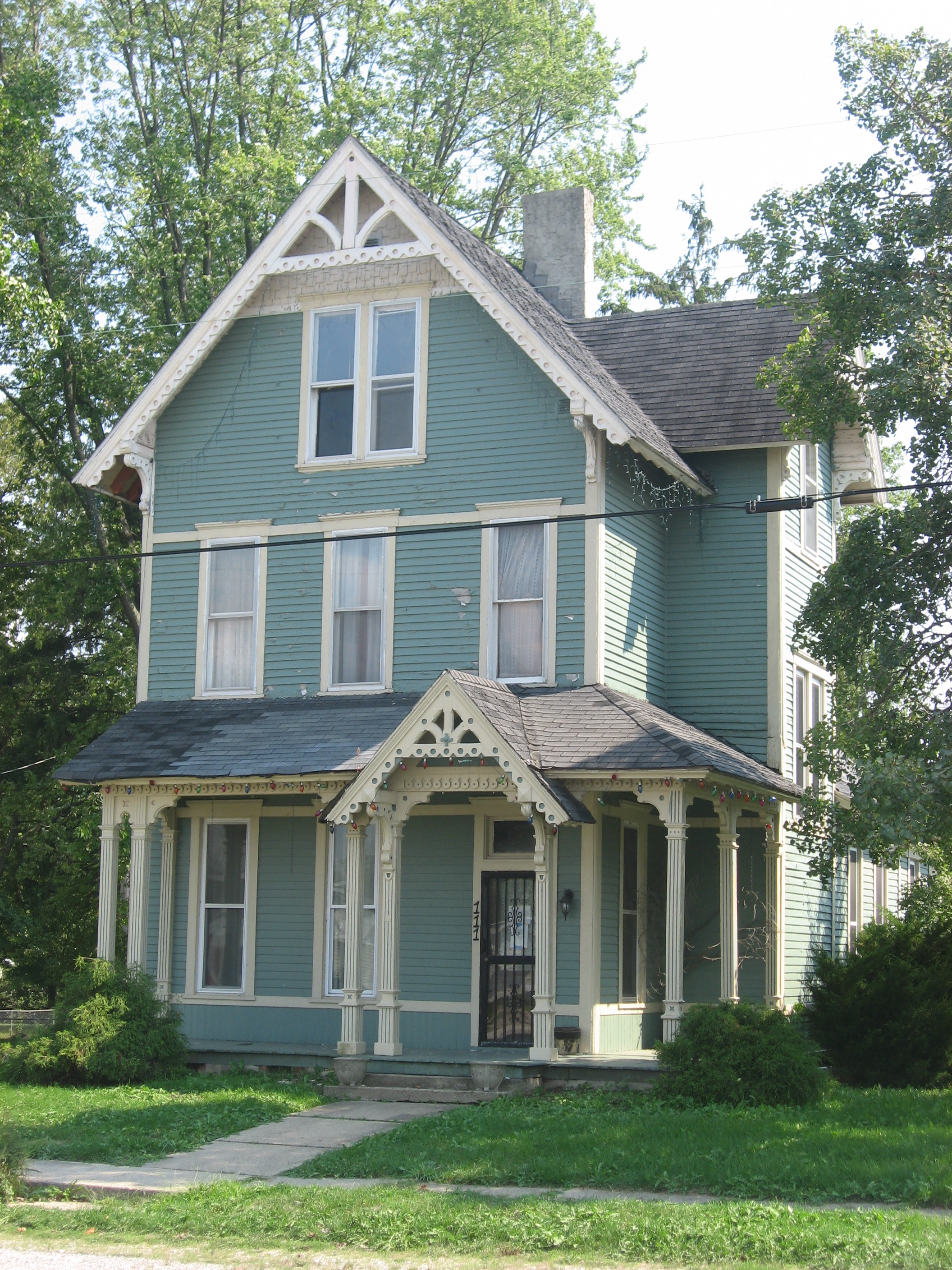 Front of the George Seybold House, located at 111 E. Main Street in Waveland, Indiana, United States. Built in 1886, it is listed on the National Register of Historic Places.